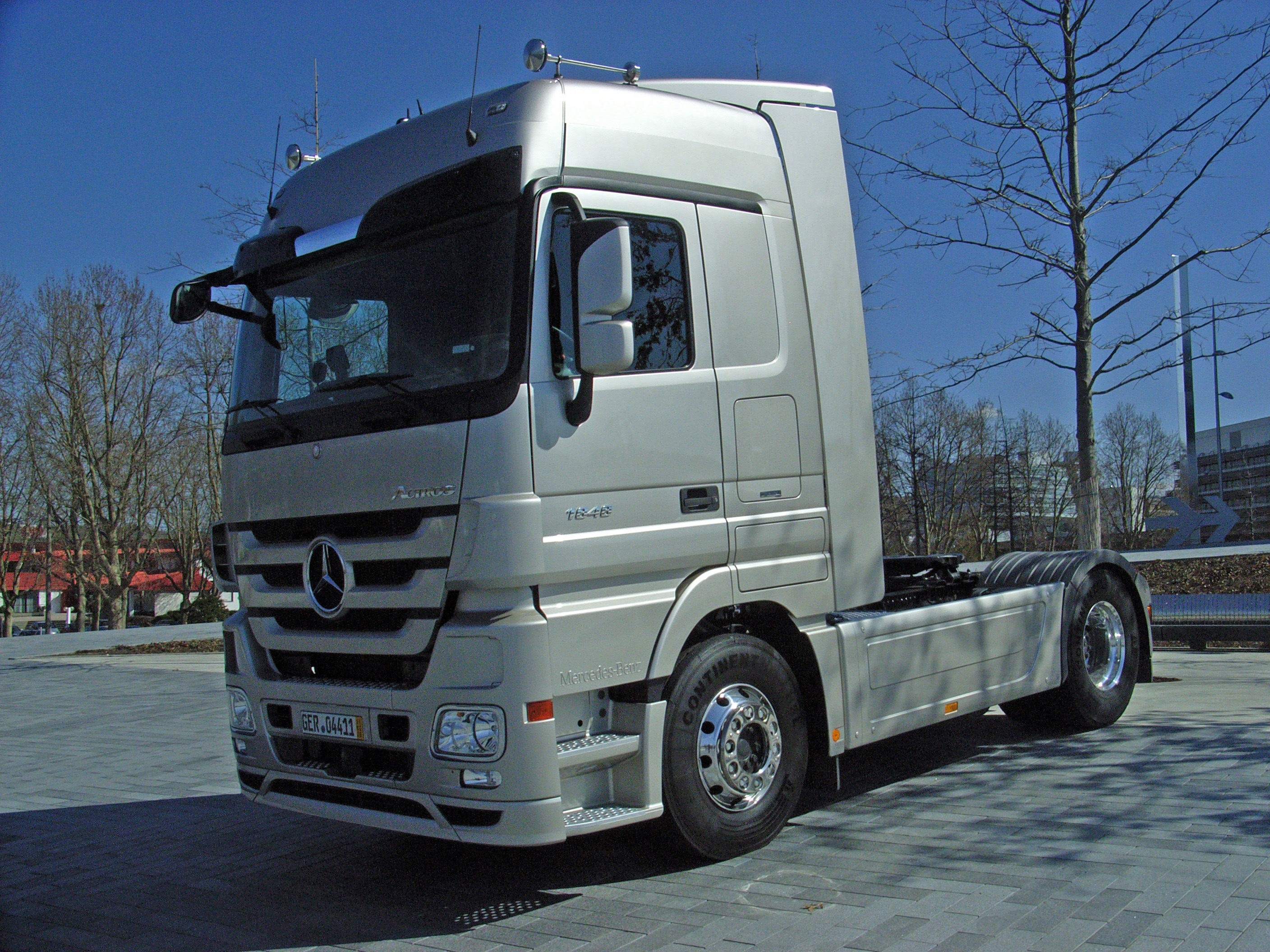 On this image you can see a Mercedes-Benz Actros 1848 with BlueTec 5 technology in front of the Mercedes-Benz-Museum in Stuttgart, Germany.